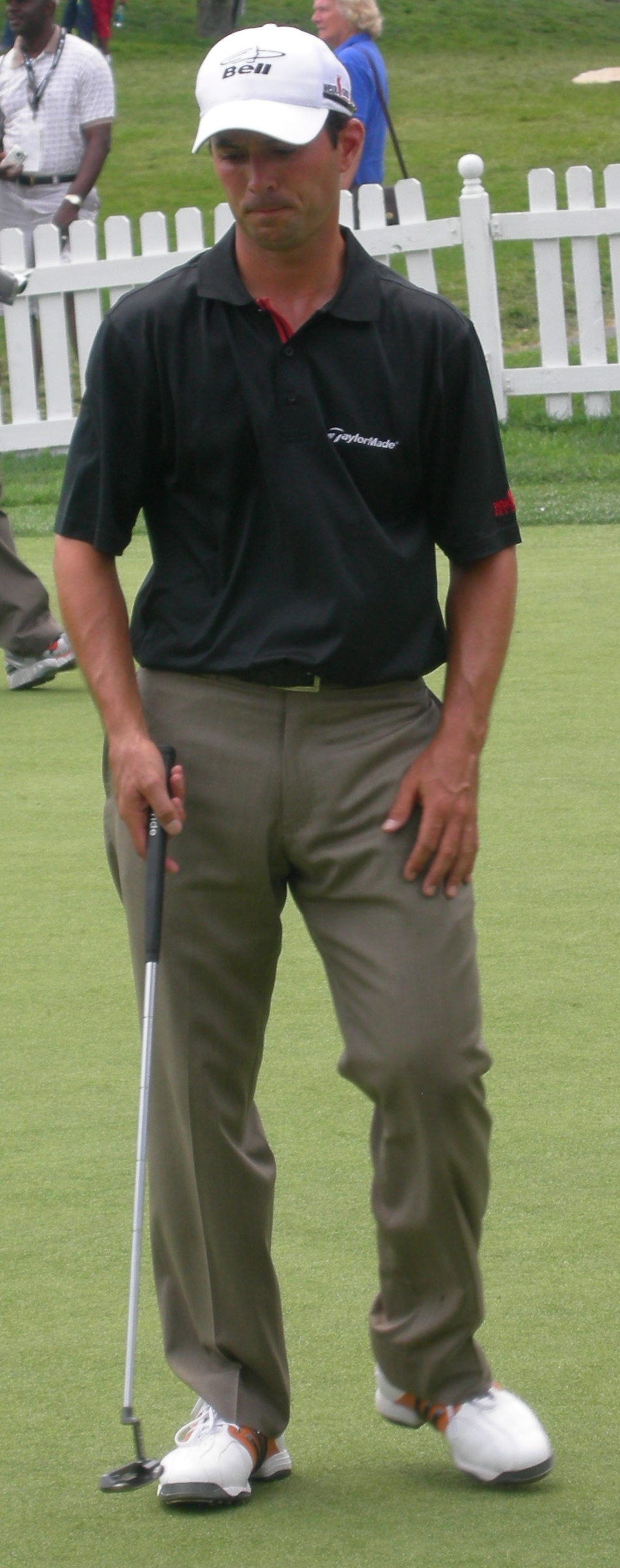 Mike Weir on the putting green at the Congressional Country Club during the Earl Woods Memorial Pro-Am prior to the 2007 AT&T National tournament.